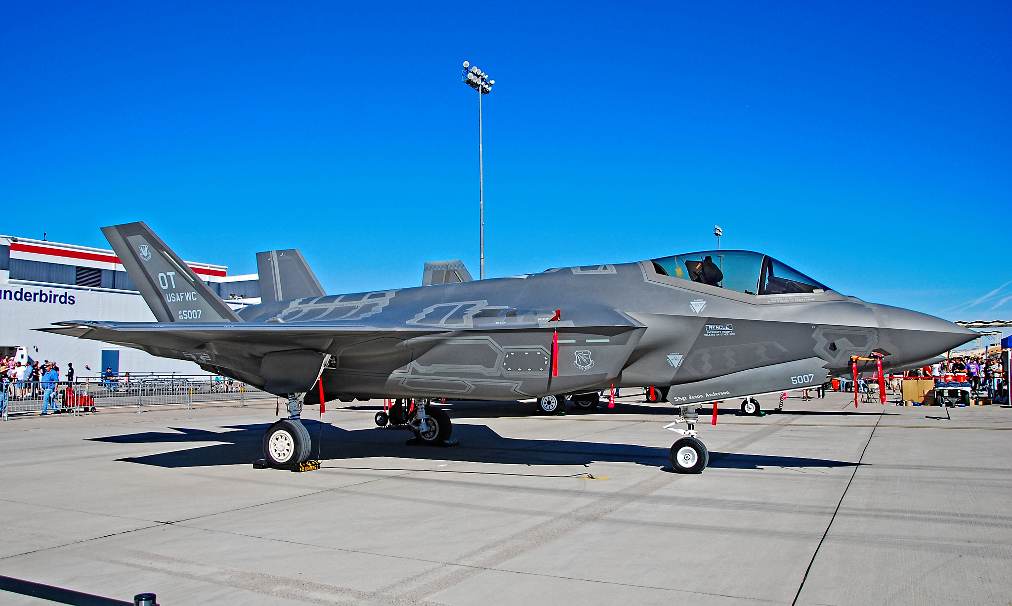 Las Vegas - Nellis AFB (LSV / KLSV) Aviation Nation 2014 Air Show USA - Nevada, November 8, 2014 Photo: TDelCoro